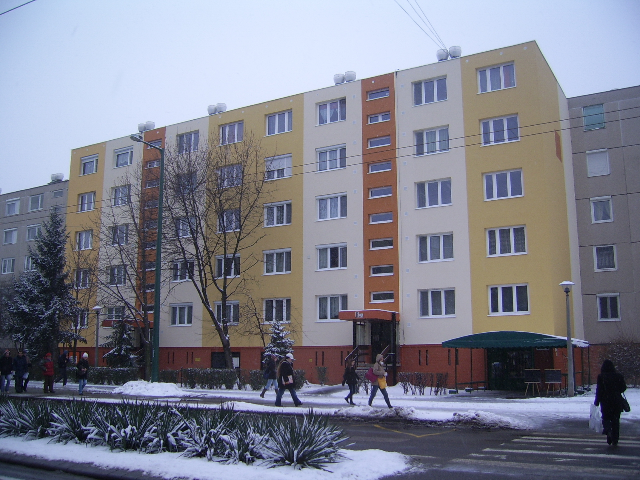 Block of flats, modernised in 2010 during the Housing Esteate Renewal Programe (hu. Panelprogram); Szeged, Hungary